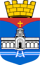 Middle Coat of Arms of the city and municipality of Rakovica, Serbia